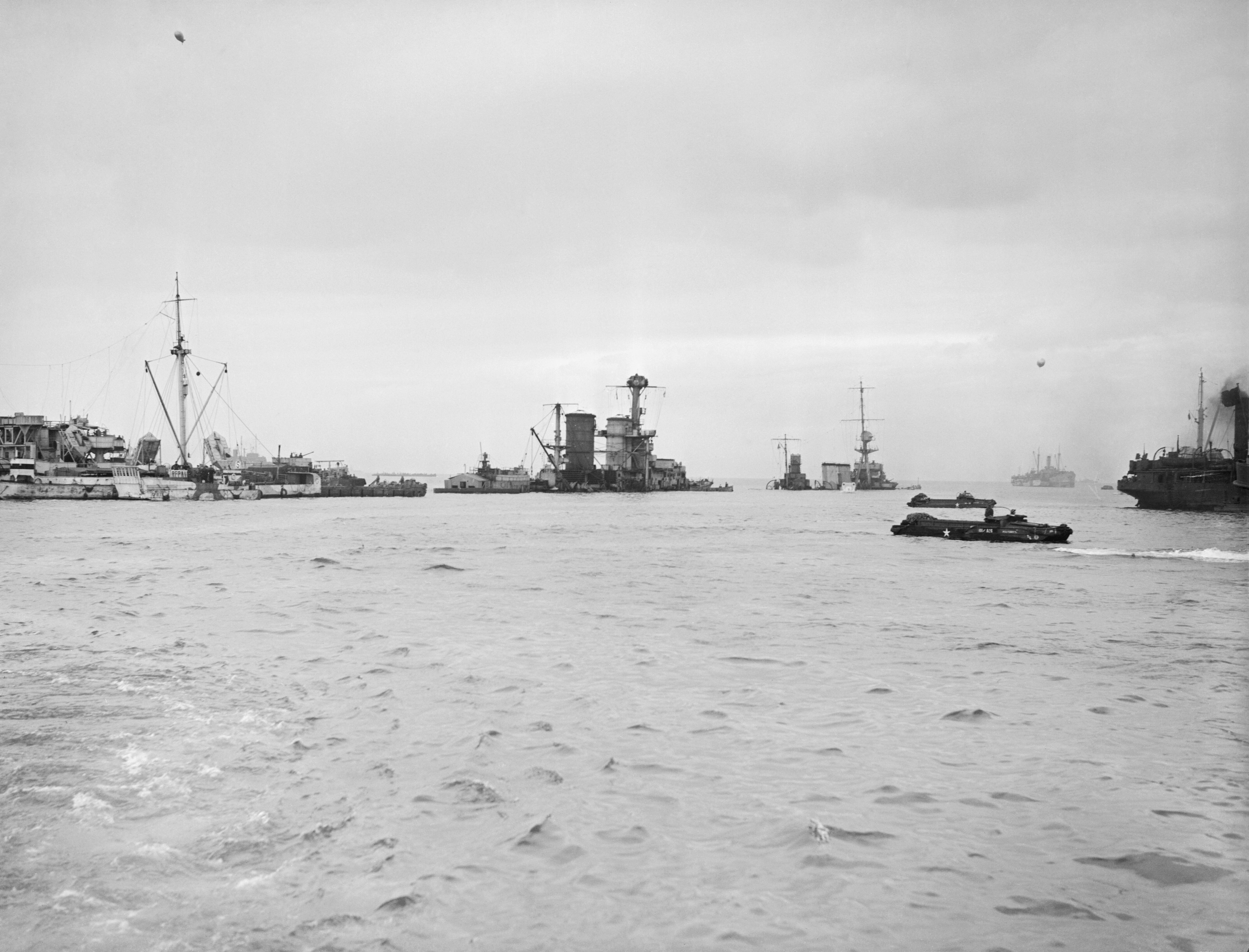 IWM caption : OPERATION OVERLORD (THE NORMANDY LANDINGS), JUNE 1944. A Gooseberry, a line of block ships laid off the beaches at Ouistreham to form a reef before the rest of the Mulberry Port was assembled. The Gooseberry includes the old HMS DURBAN and the Netherlands ship SUMATRA. Two DUKWs can be seen moving amongst the block ships.Note: Goosberry 5 at Sword beach. In centre, Royal Dutch cruiser Sumatra, right: HMS Durban